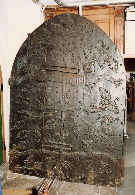 St Saviour, Dartmouth, Devon - Door